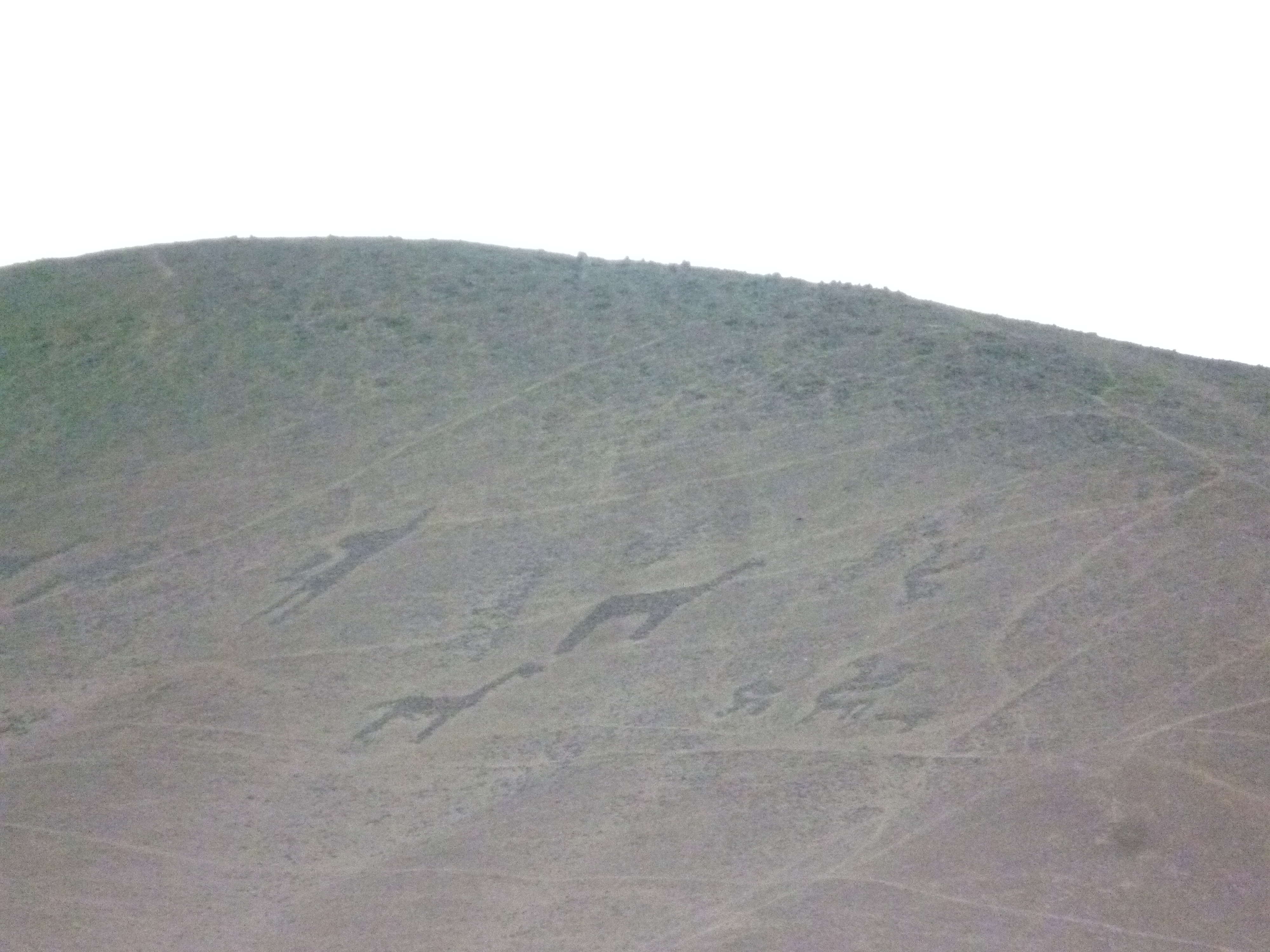 Detalle de La Tropilla (geoglifo de Atoka)